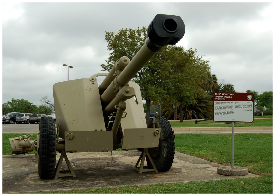 M-56 Howitzer 105mm (Towed) on display at Fort Sam Houston, Texas (March 2007). According to the display sign, it was recovered north of Kuwait City in February 1991. Photo by Peter Rimar.